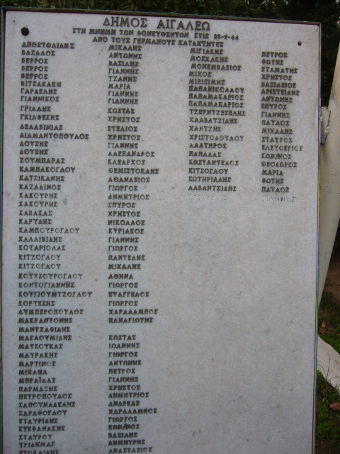 The names of the victims on the monument dedicated to the Egaleo massacre of WWII, at Egaleo, Greece